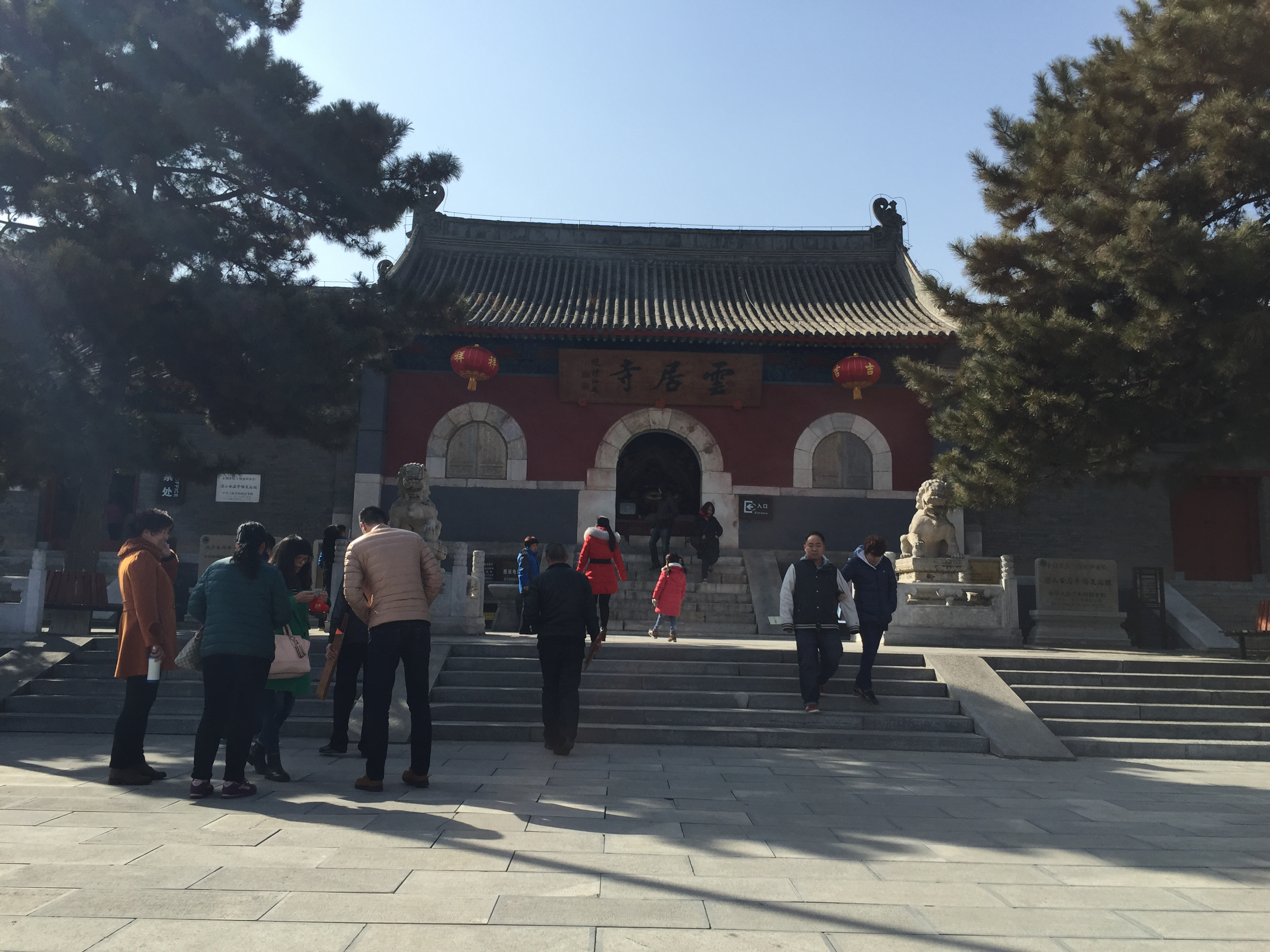 Now Yunju Temple is accessible via G5 Beijing-Kunming Expressway.